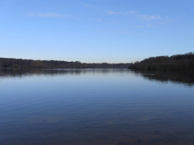 Ruislip Lido from Woody Bay